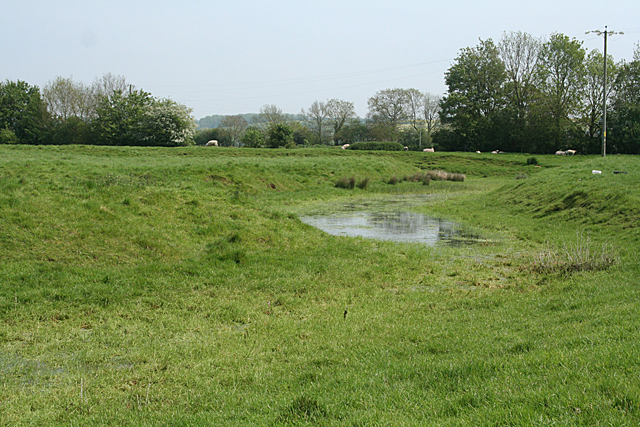 Marston Magna: medieval moat